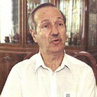 Adolfo Canepa